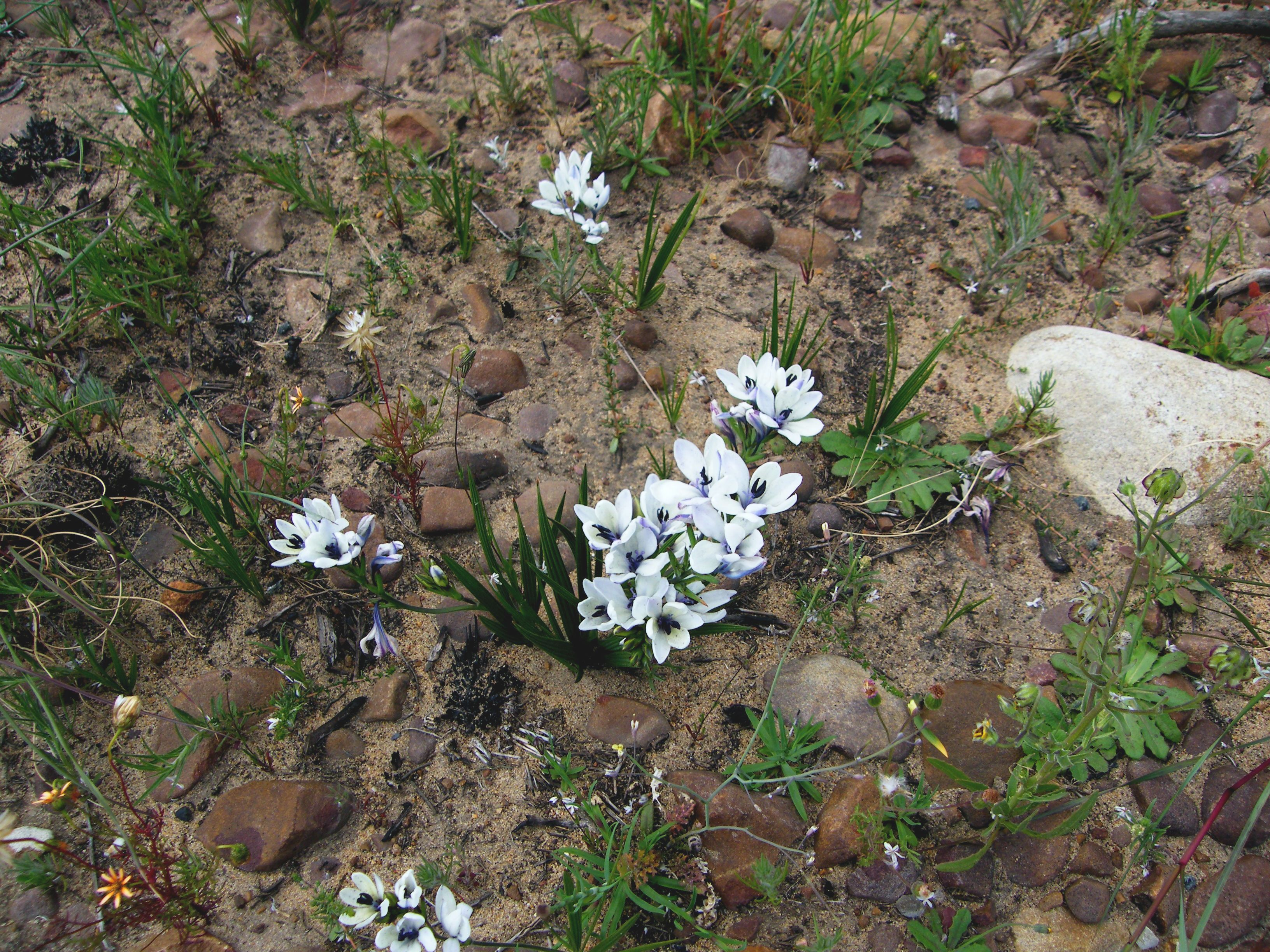 Babiana Stricta